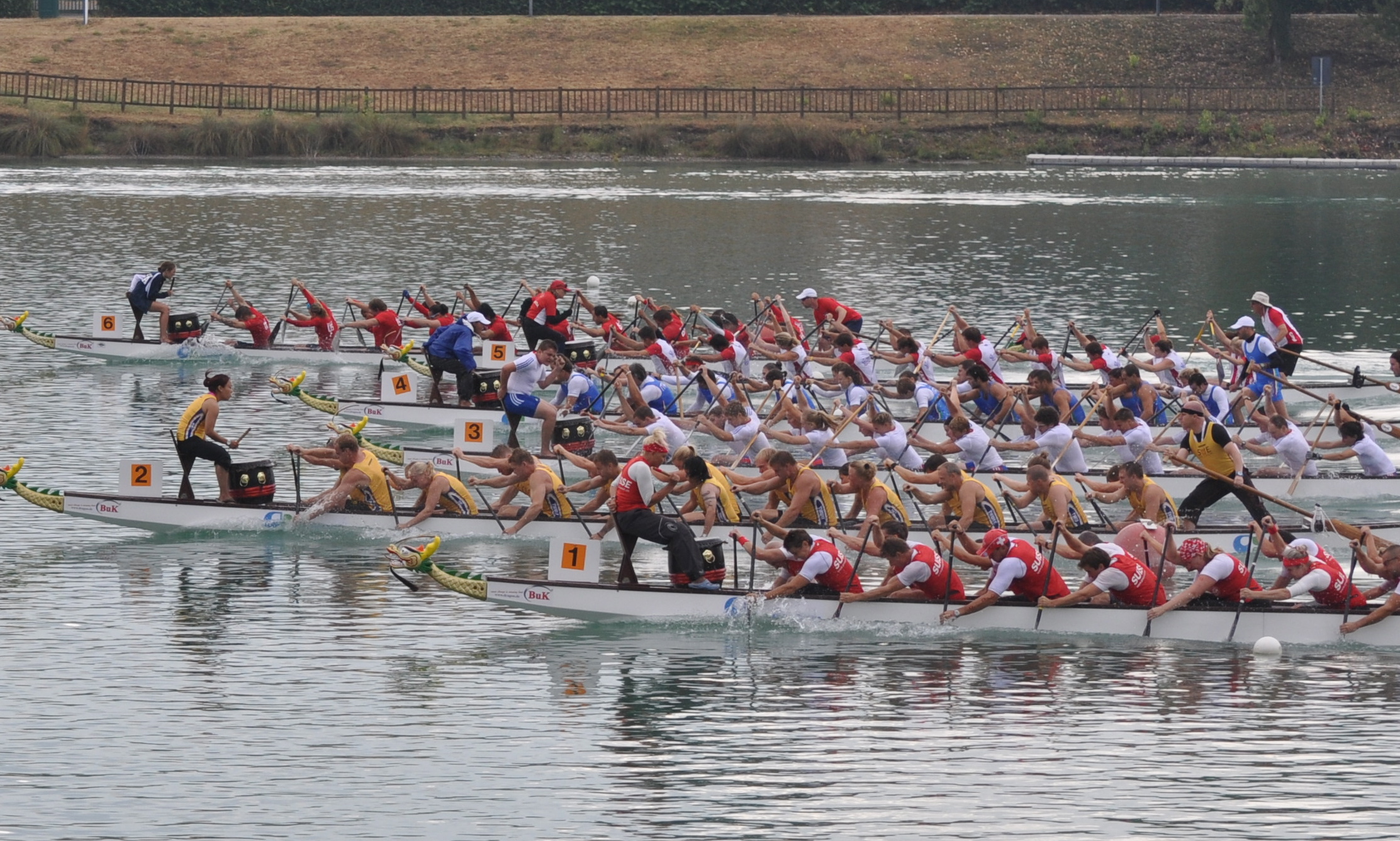 (ICF World Dragon Boat Racing Championships 2012 in Milan. Senior Mixed teams Racing.)